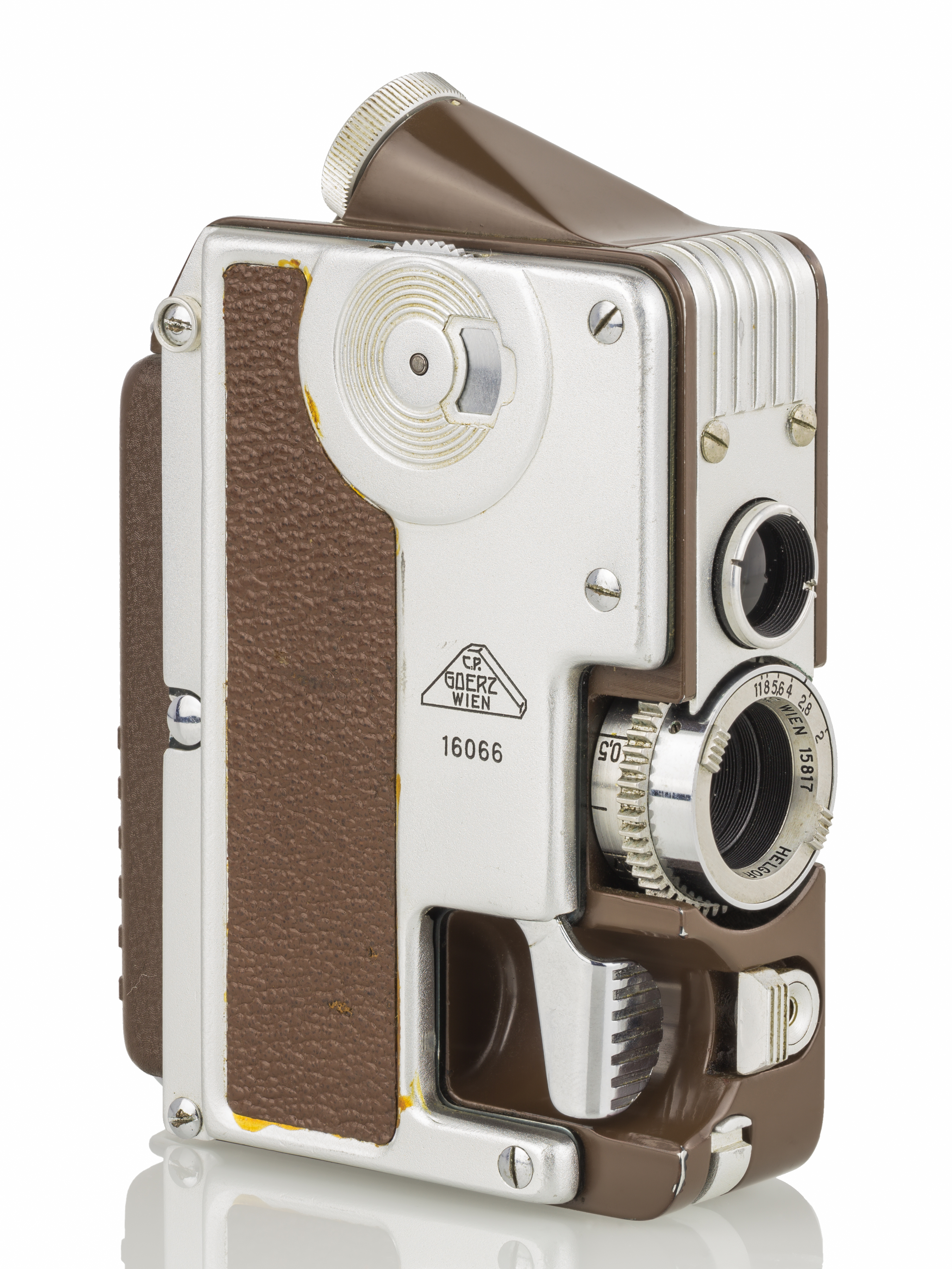 C.P. Goerz GmbH of Vienna introduced the original Minicord in 1951. It is one of the highest quality subminiatures ever built. This model is from 1958. The lens is a Goerz Helgor f2/25mm, is particularly suited for indoor photography with existing light with finer grain films as well as general photography. Close focusing to 0.3m (12 inches). The shutter is a metal plane, with speeds 1/10-1/400 s. It was the smallest TLR (Twin lens reflex) camera ever build. Photograph: Focus stacking from 20 exposurs